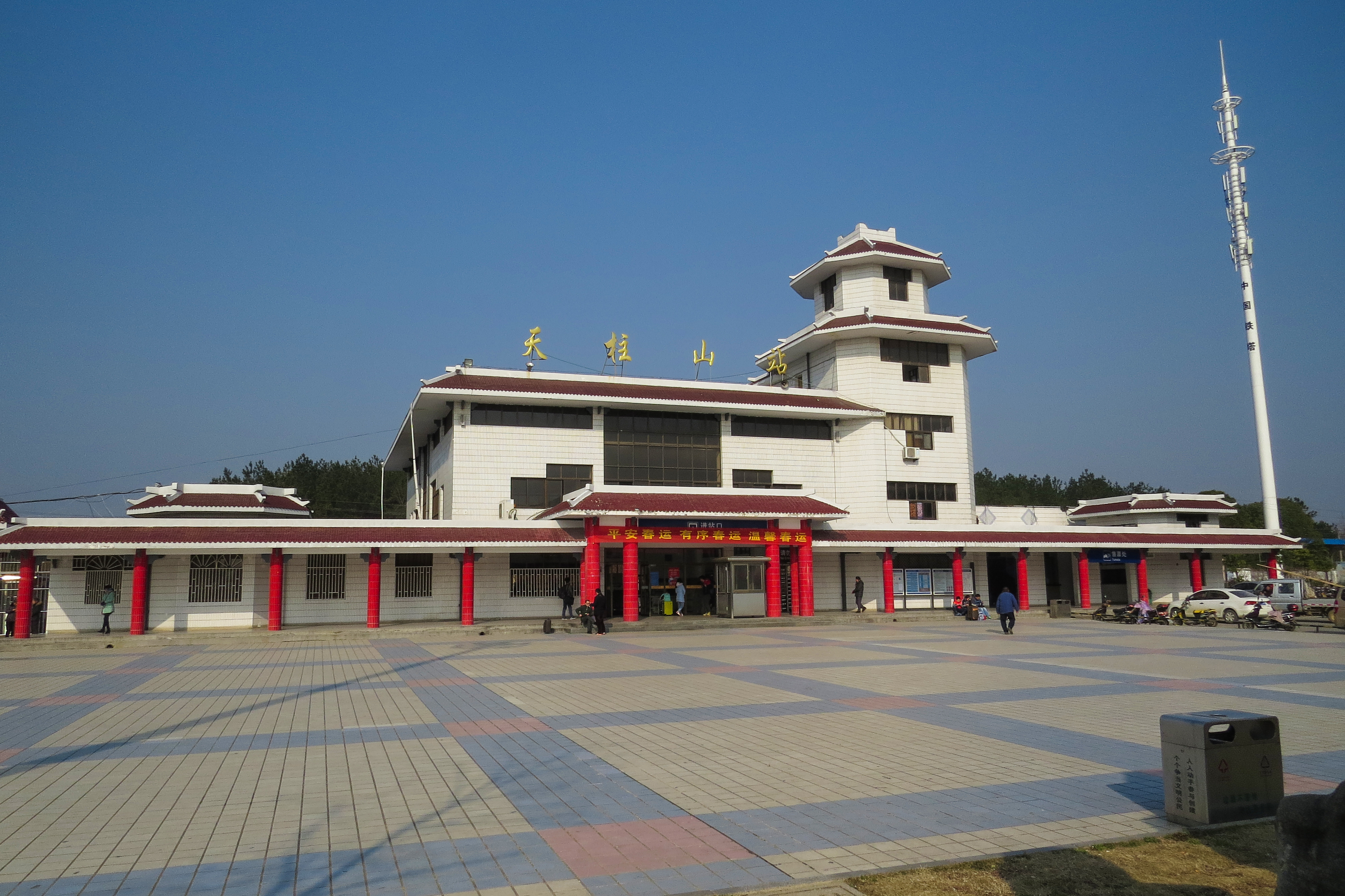 Another Qianshan Railway Station is being built for Hefei-Anqing-Jiujiang HSR.